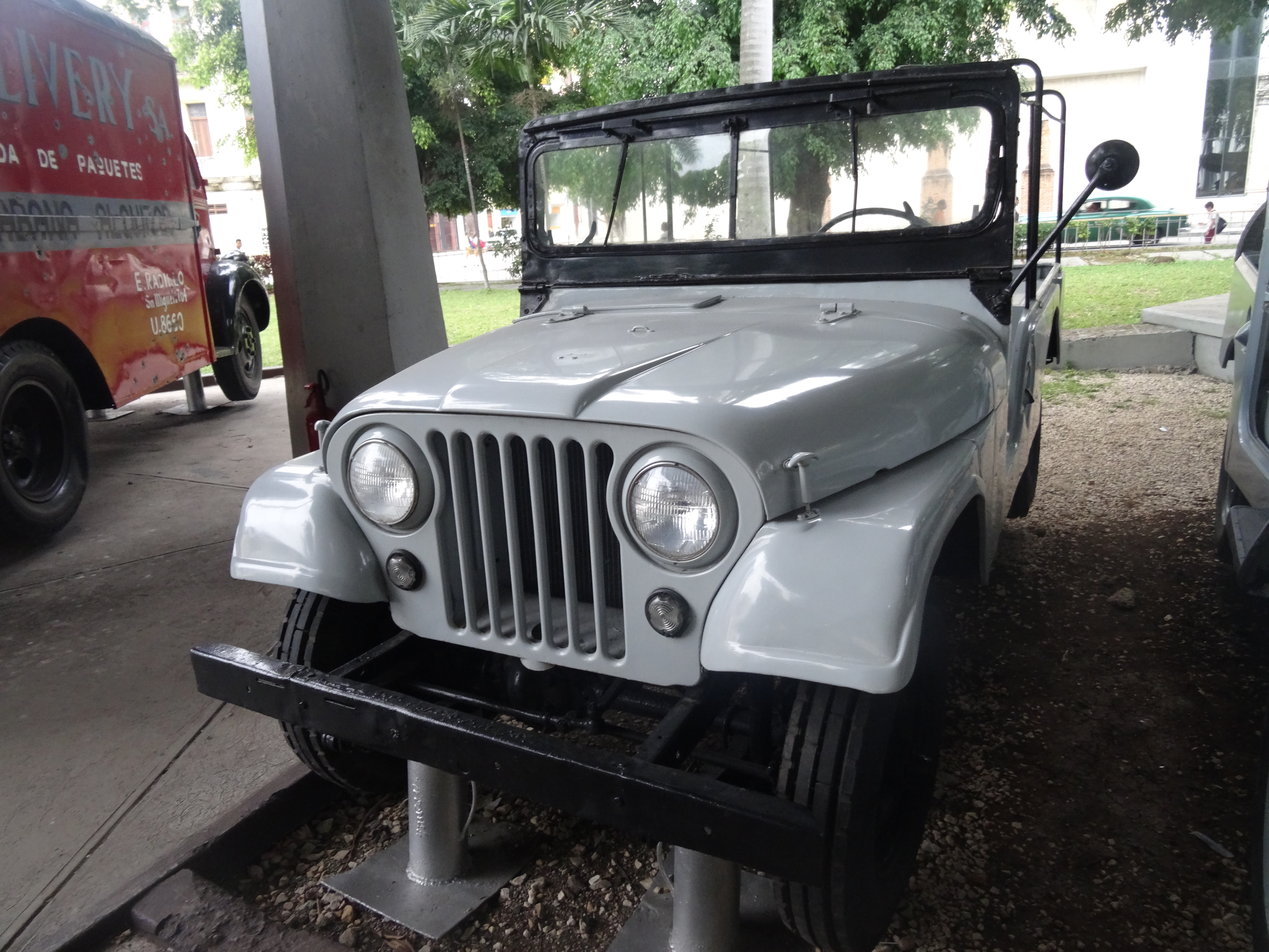 Jeep Willys used by commander Juan Almeida Bosque at the III East Front "Mario Munoz Monroy". Seized from Batista's army troops.